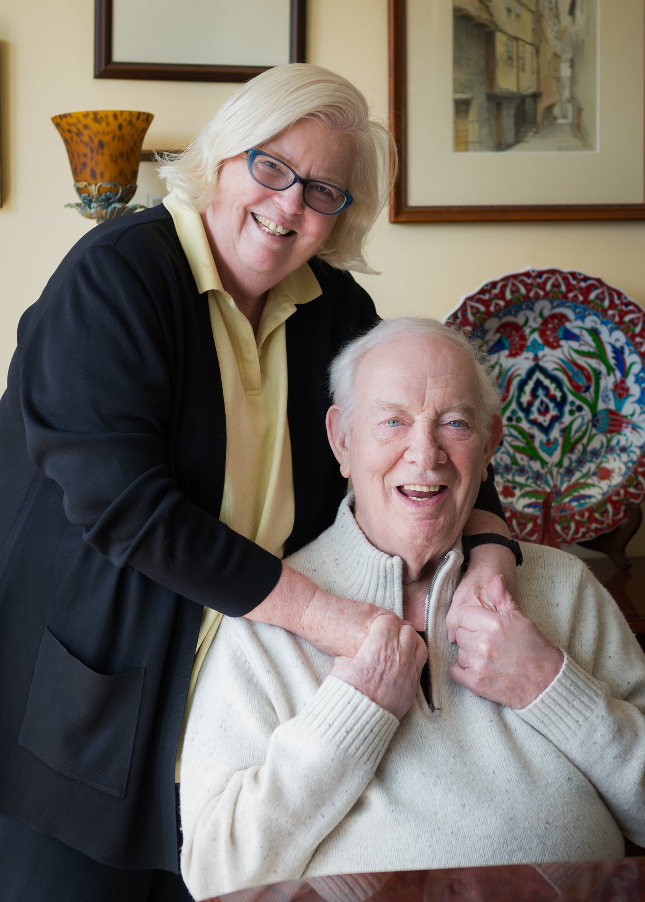 Former acting chairman of the National Endowment for the Arts, Hugh Southern and his wife Kathy Dwyer Southern